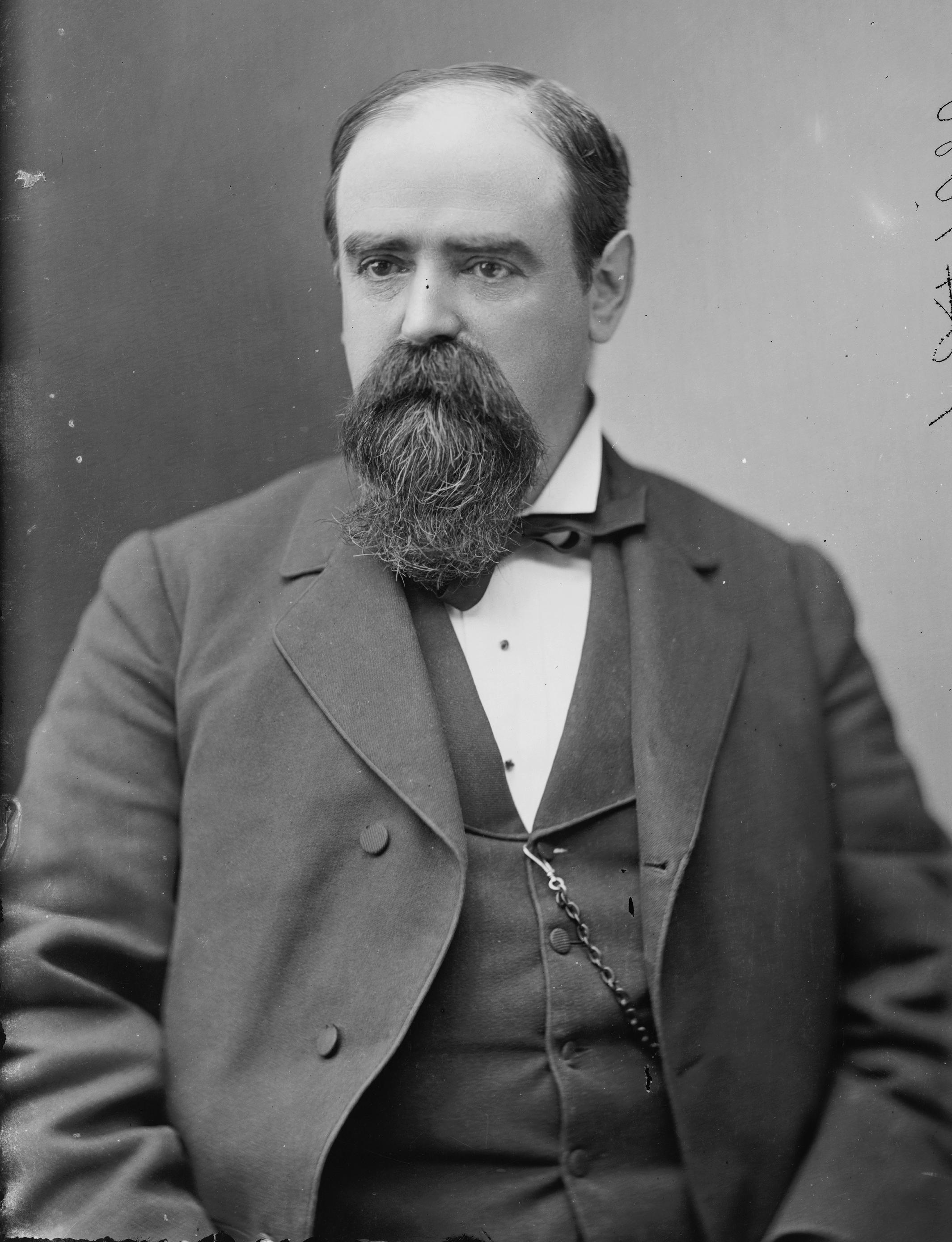 Edward Overton, Jr.. Library of Congress description: "Overton, Hon. Edward Jr. of Pa. Major in 50th Regt Penn. Vol., Lt. Col. 1863".